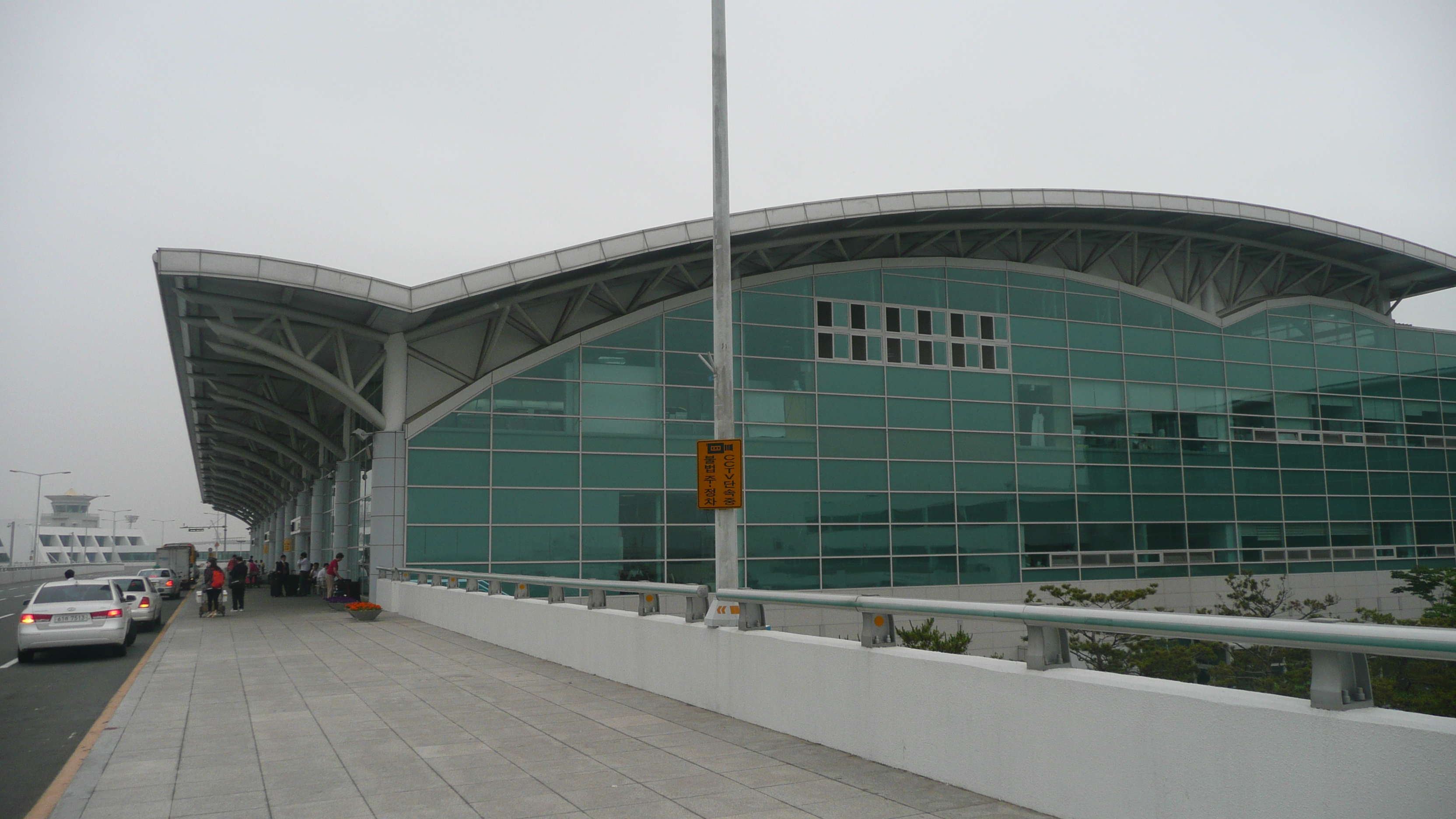 Airport Gimhae, Busan, South Korea